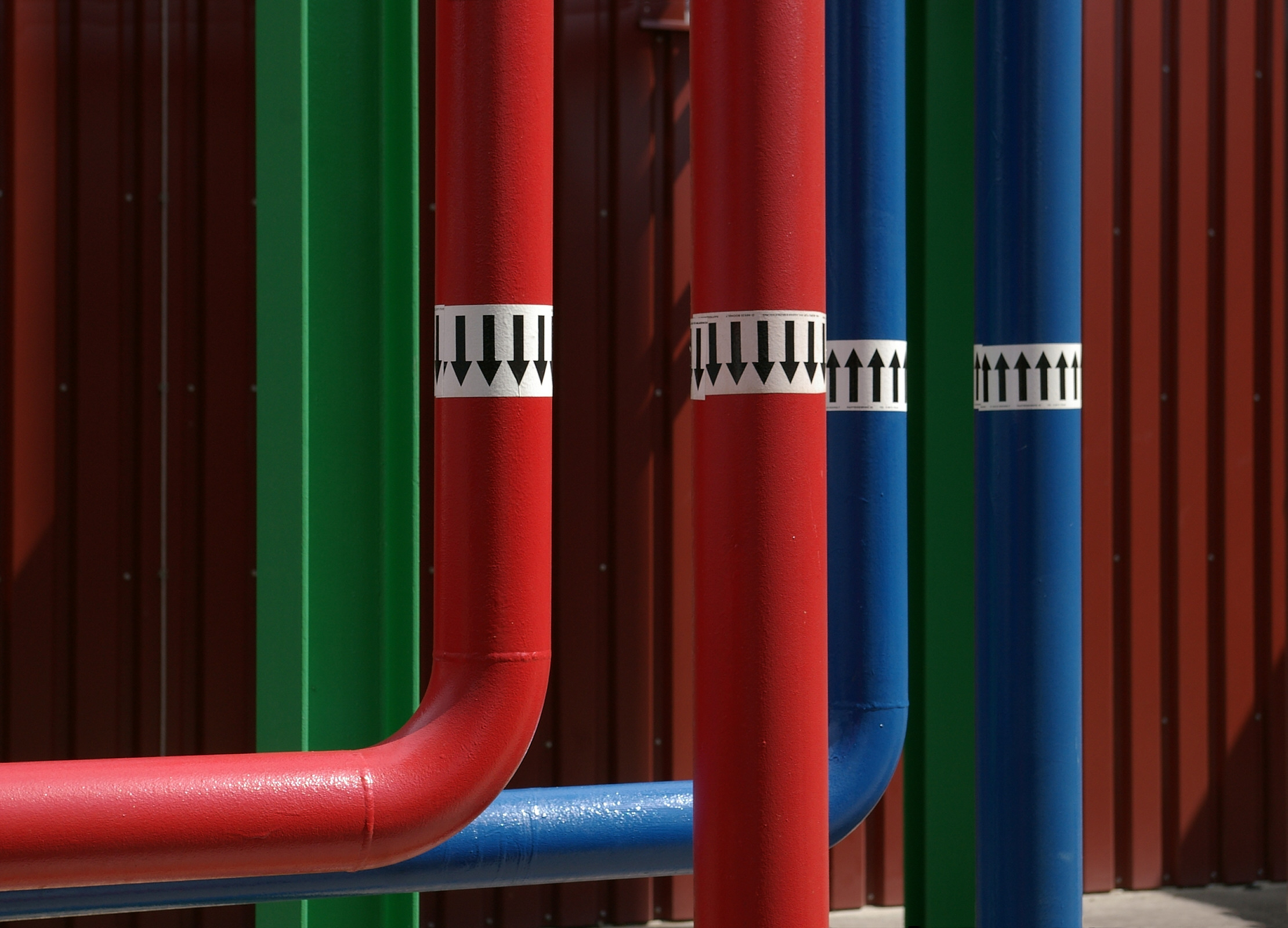 Pipes to a condenser of an air conditioner